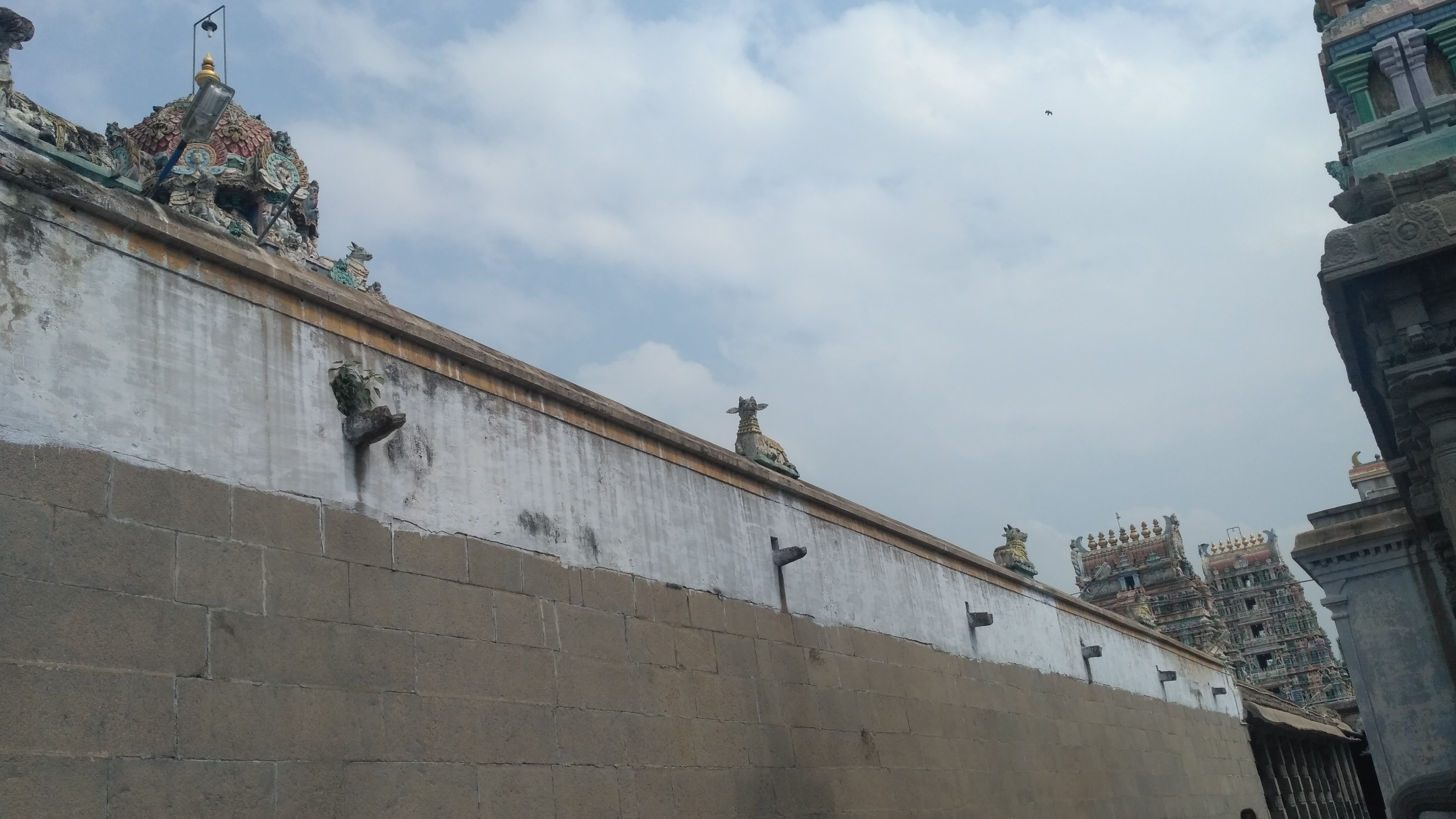 The identity of the Town